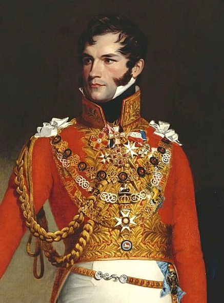 George Dawe. Leopold I of Belgium.